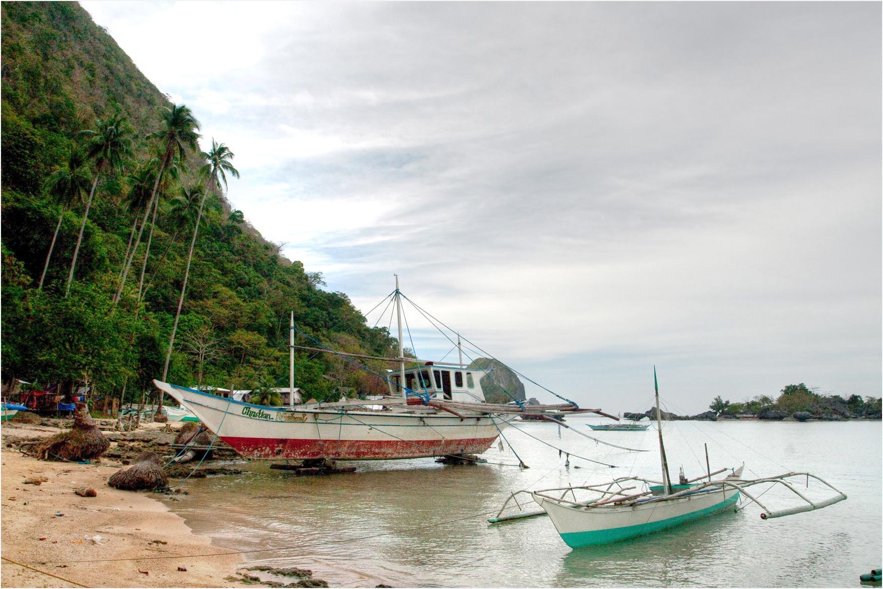 El Nido Fishing Village